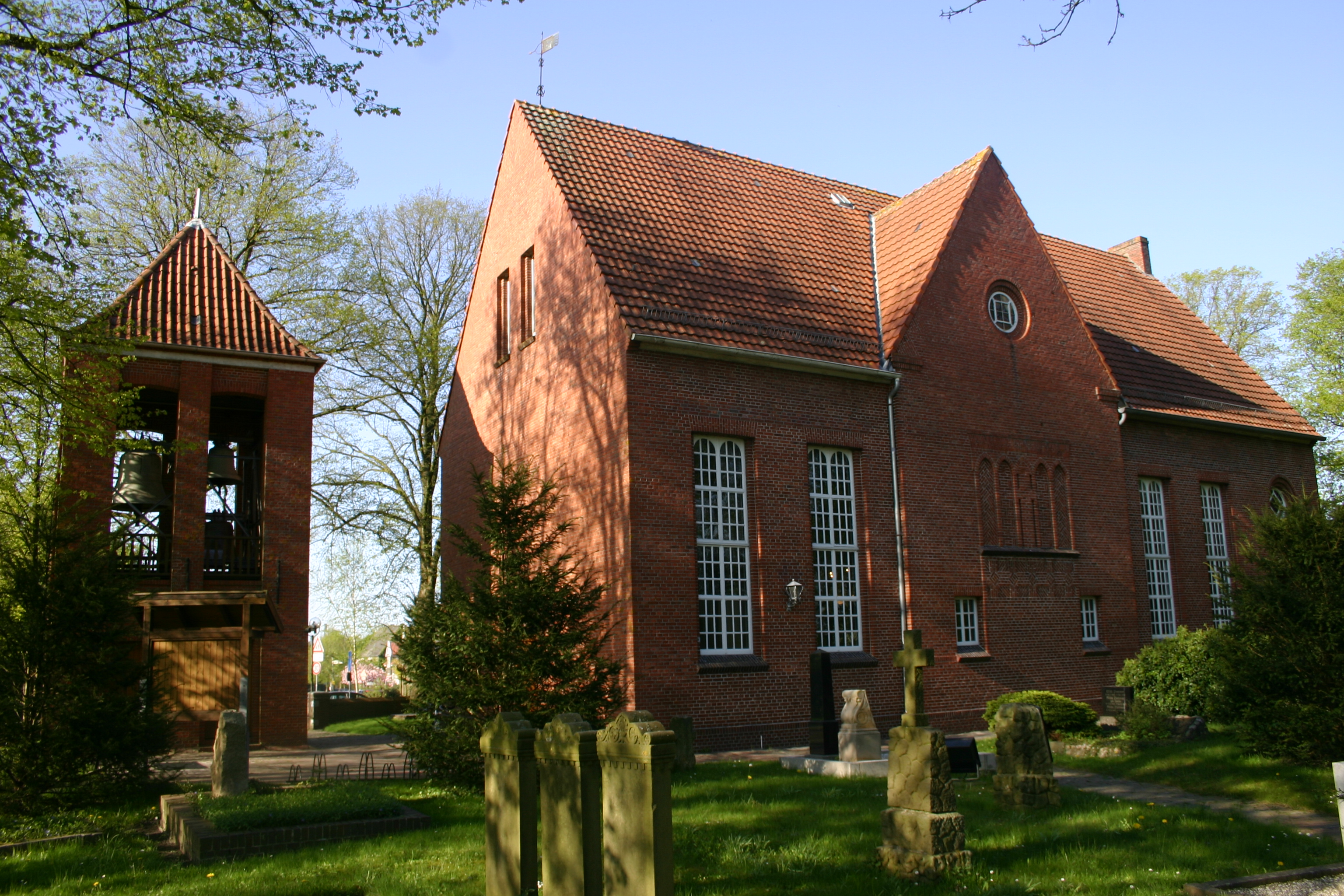 Historic church in Oldersum, district of Leer, East Frisia, Germany